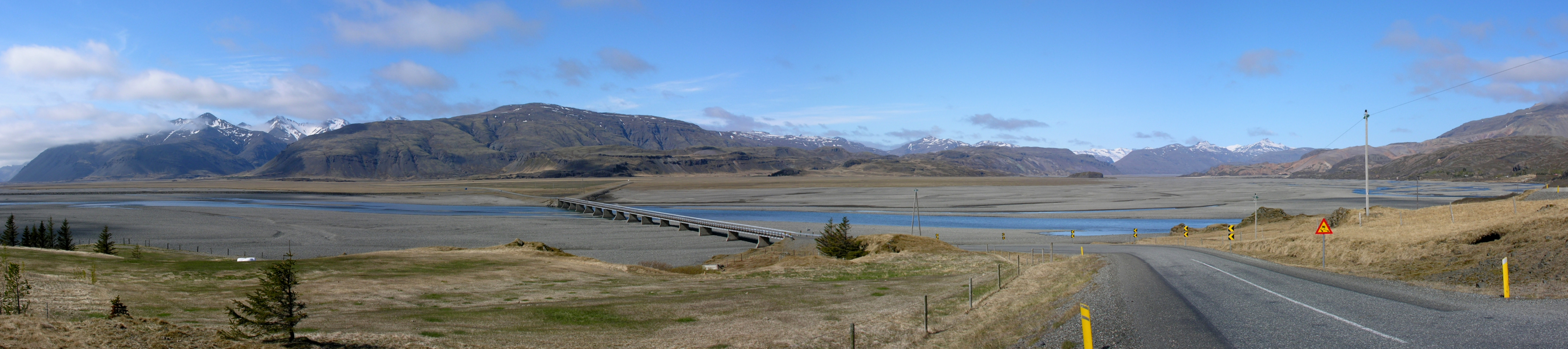 Iceland, Stafafell